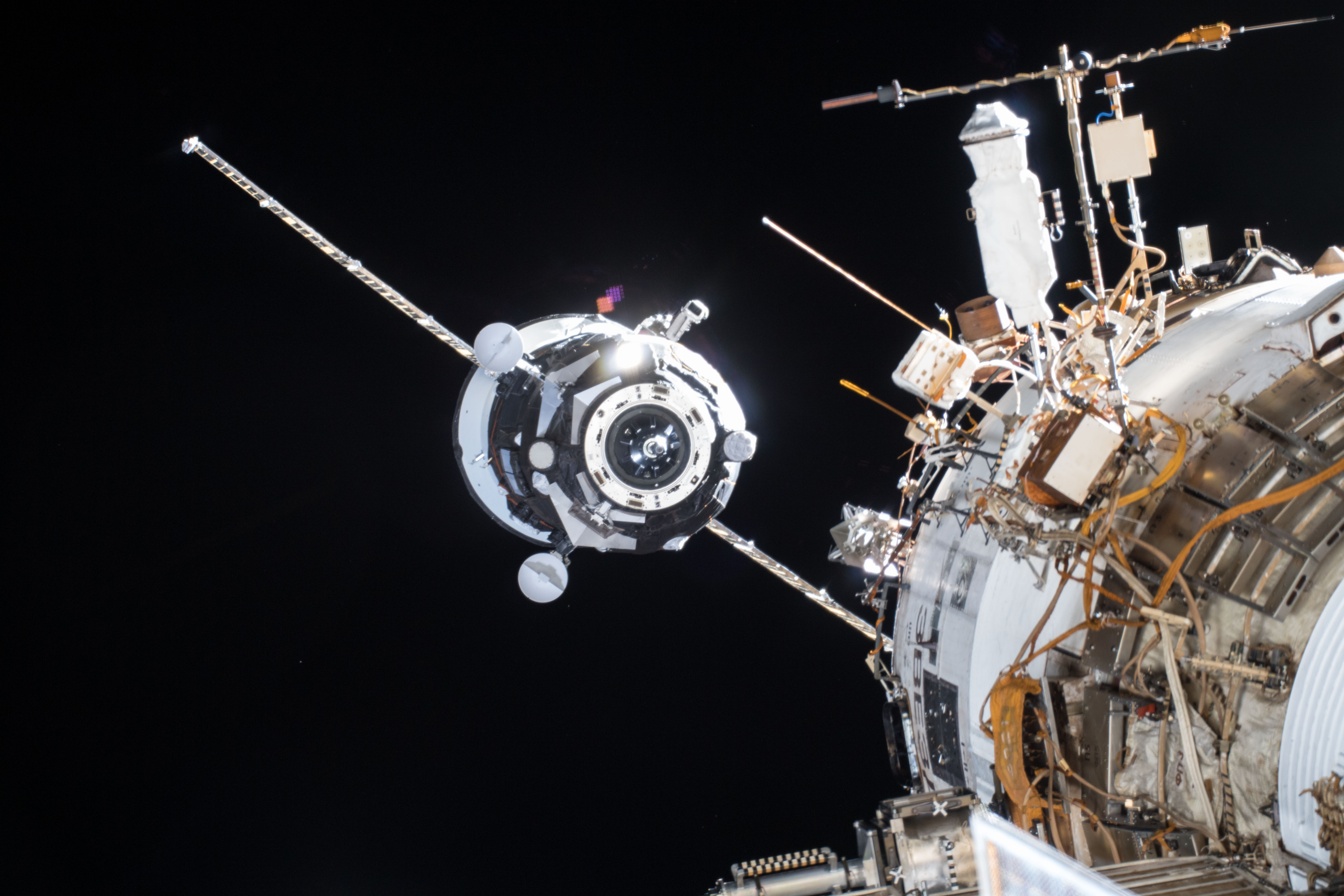 The Russian Progress 69 (69P) resupply ship approaches the aft end of the Zvezda service module where it docked Feb. 15, 2018, delivering over three tons of food, fuel and supplies for the Expedition 54 crew. The 69P stayed at the International Space Station for six months before undocking from Zvezda Aug. 22 loaded with trash and discarded gear for a fiery, but safe disposal over the Pacific Ocean on Aug. 29.